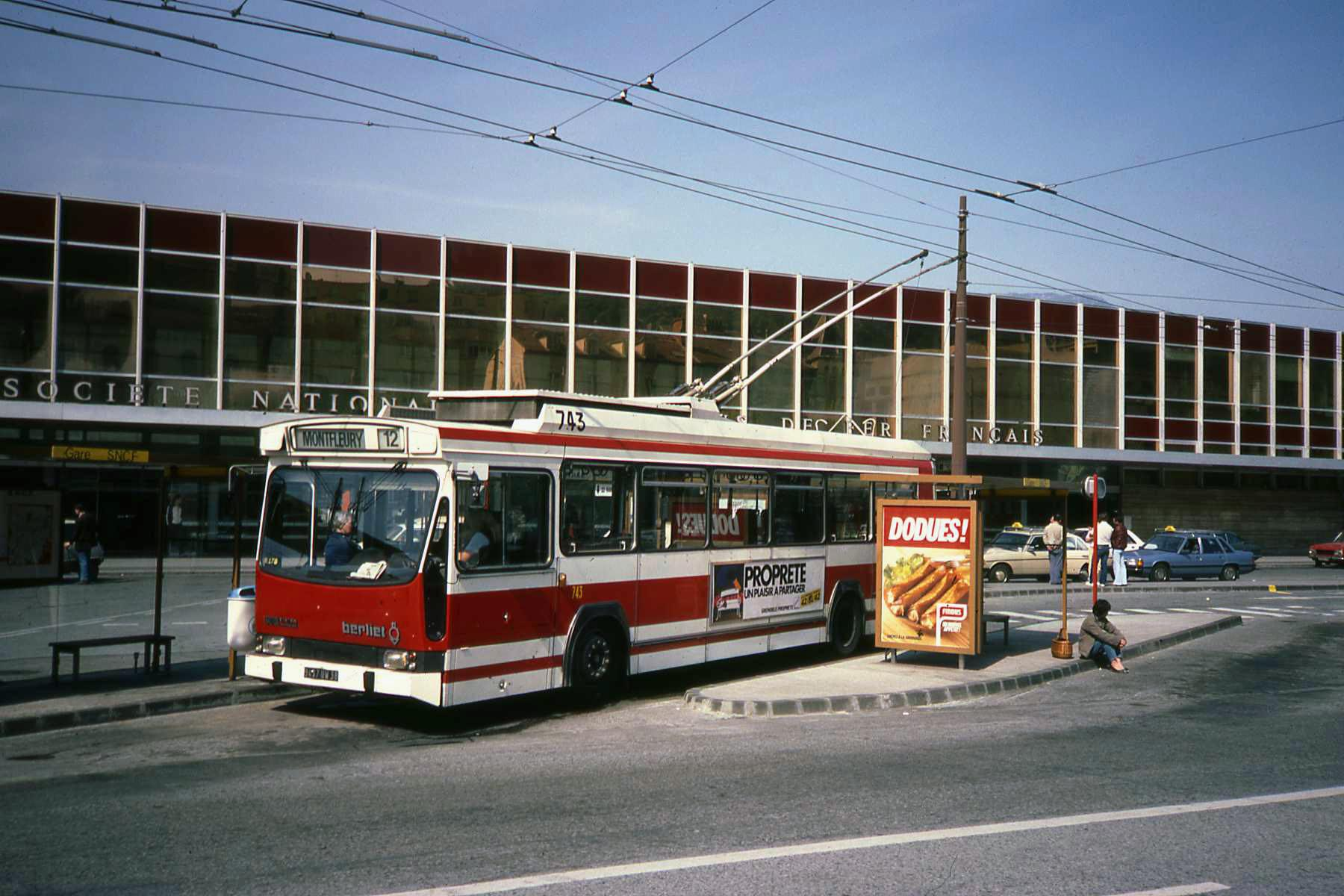 Berliet trolleybus in Grenoble